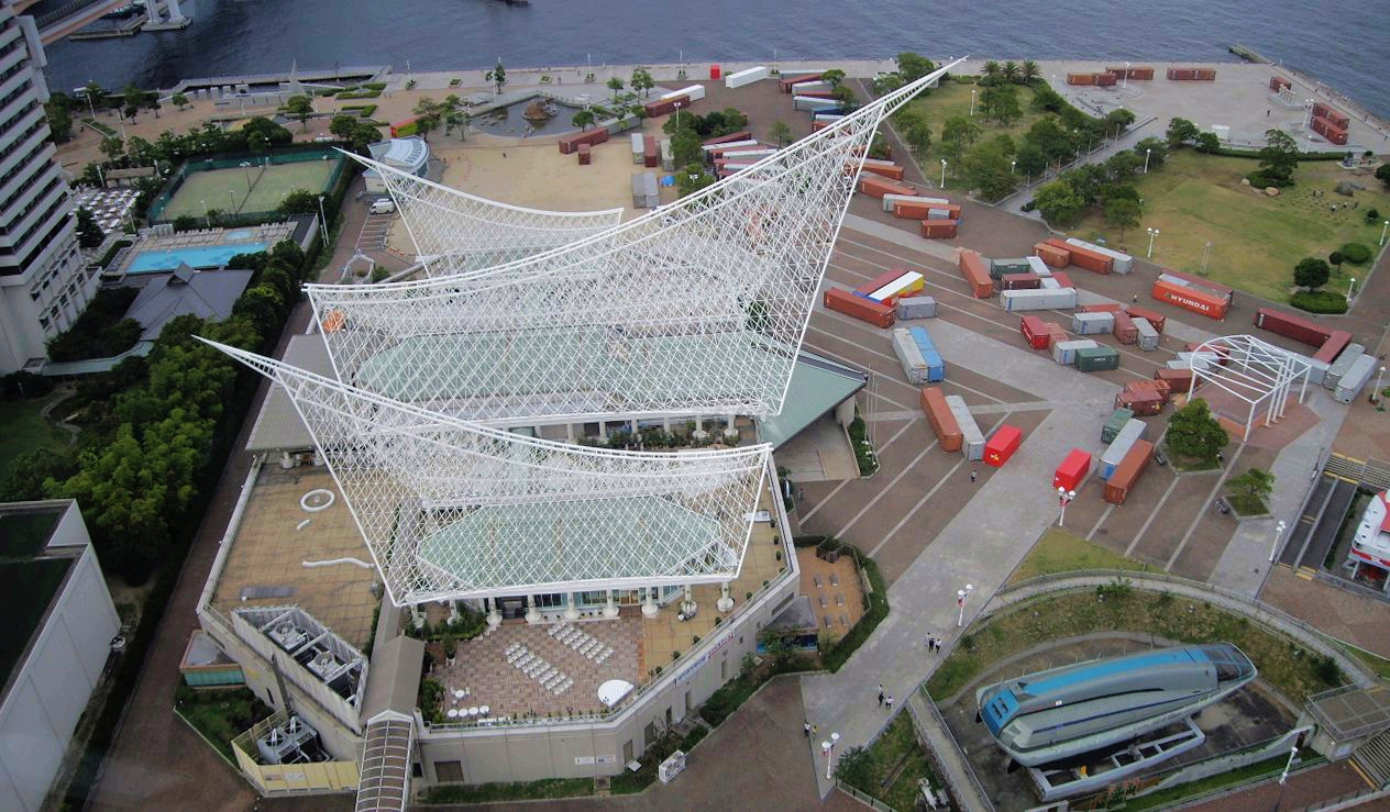 Kobe Maritime Museum. A bird's-eye view from Kobe Port Tower.